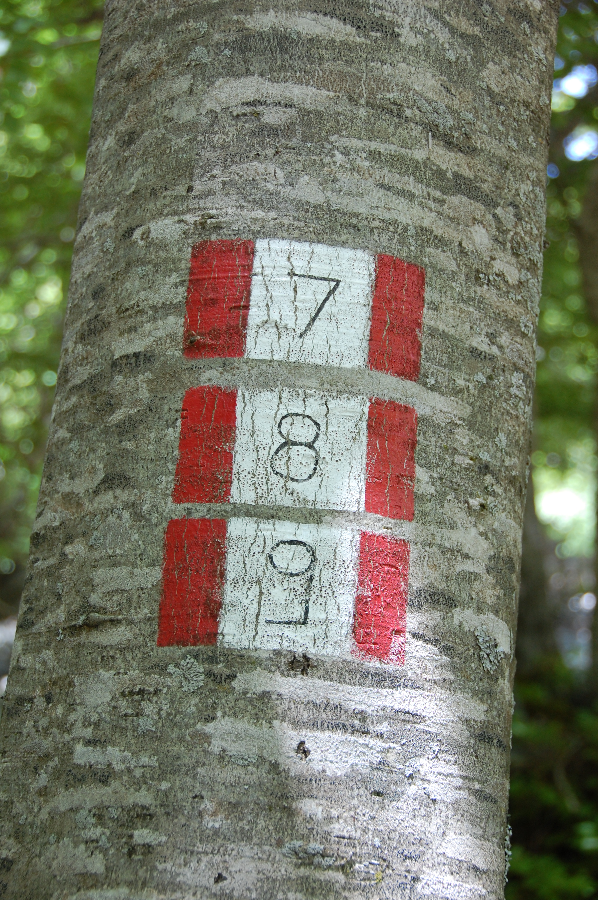 Signage by Club Alpino Italiano CAI on a path at Pizzo Deta, Lazio, Italy